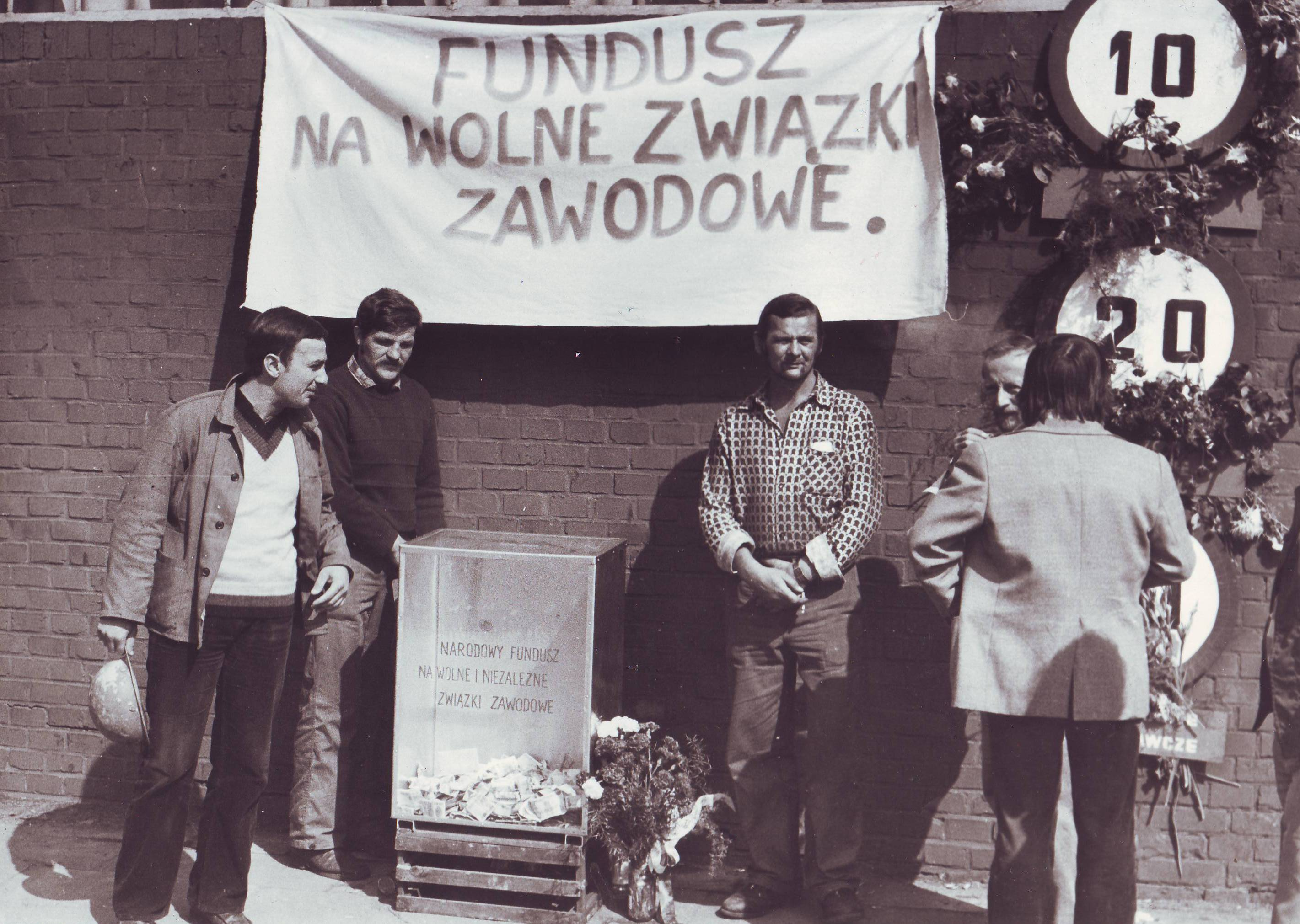 Fundraising for Independent Labor Unions in Szczecin during September 1980 crisis in Poland.